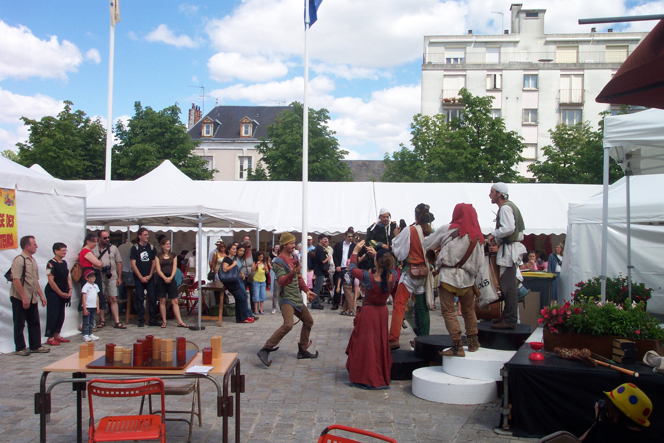 The Place du Drapeau during the Festival Ludique International de Parthenay of 2010 in the French town of Parthenay. A mediaeval band and jugglers entertain the festival crowds. For more information, see the Wikipedia articles Parthenay and Festival Ludique International de Parthenay.